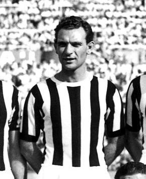 Turin, Communal Stadium, September 9, 1951. Italian footballer Giacomo Mari with Juventus FC in the Italian Championship 1951–52 Serie A.